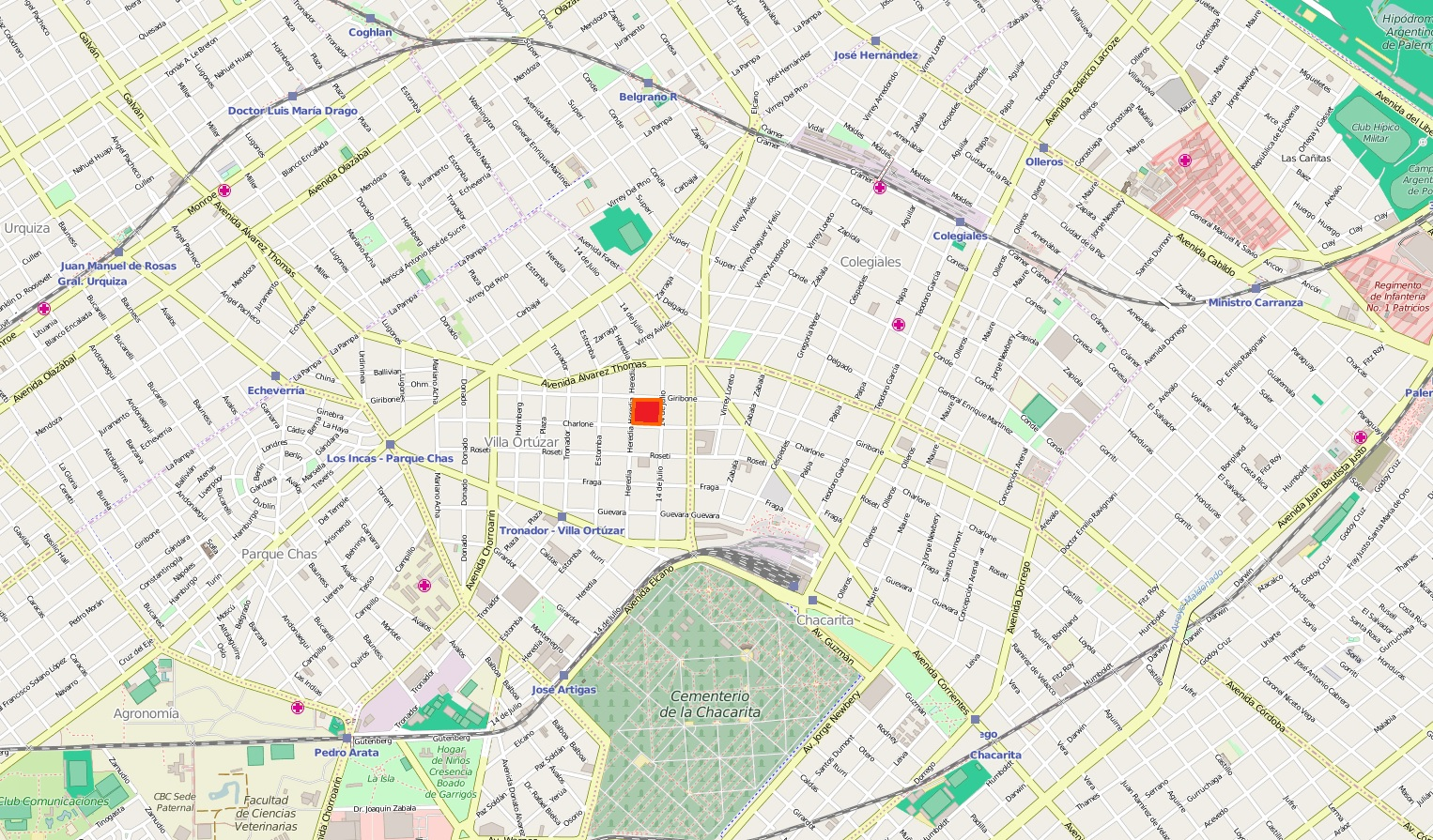 25 de agosto square, Buenos Aires This map may be incomplete, and may contain errors. Don't rely solely on it for navigation.